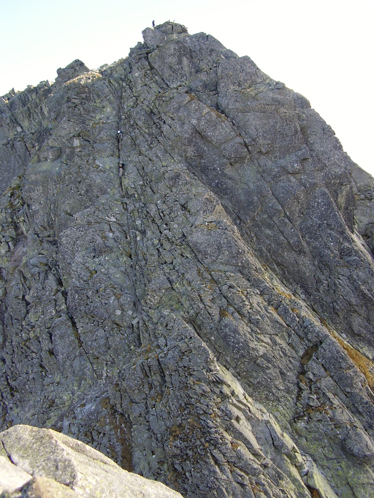 Tatra Mountains, Poland